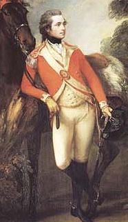 Portrait of John Hayes St Leger